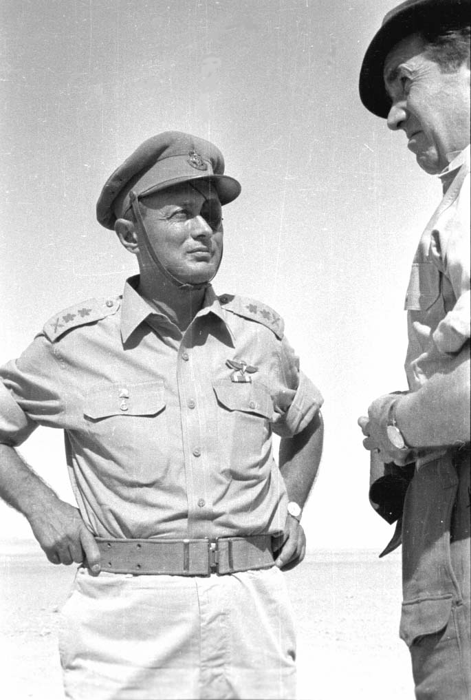 Following countless terrorist incursions by “fedayeen” infiltrating the shared border with Egypt, Israel was forced to adopt measures to halt these attacks. On October 29, 1956, the Sinai Campaign was launched. In a sweeping operation of 100 hours, the Israel Defense Forces took control of the entire Sinai peninsula. Pictured above Lt. Gen. Moshe Dayan, the Chief of Staff, during briefing session with senior officers. Photo: IDF photo archives. The Israel Defense Forces Facebook • blog • Twitter